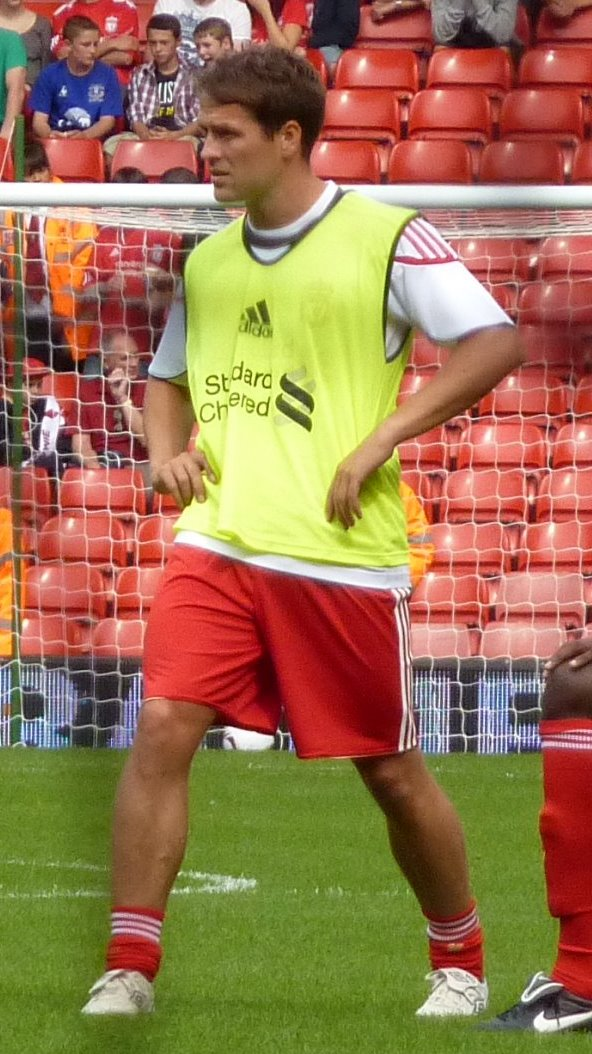 English football player, Michael Owen, before Jamie Carragher Testimonial Match.